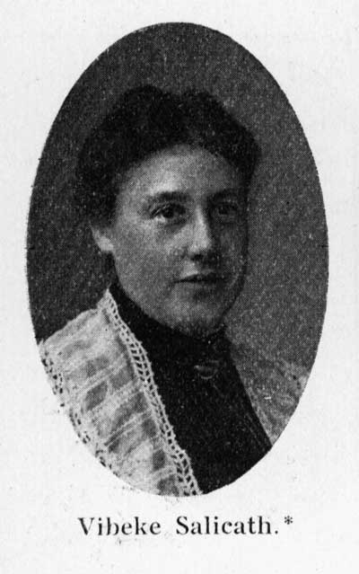 Photograph of the Danish feminist and journal editor Vibeke Salicath (1861-1921)